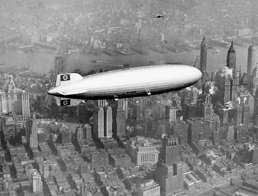 Photo of the Hindenburg over New York City on May 6, 1937. A few hours after this photo was taken, the airship crashed and burned at Lakehurst, NJ while trying to land.